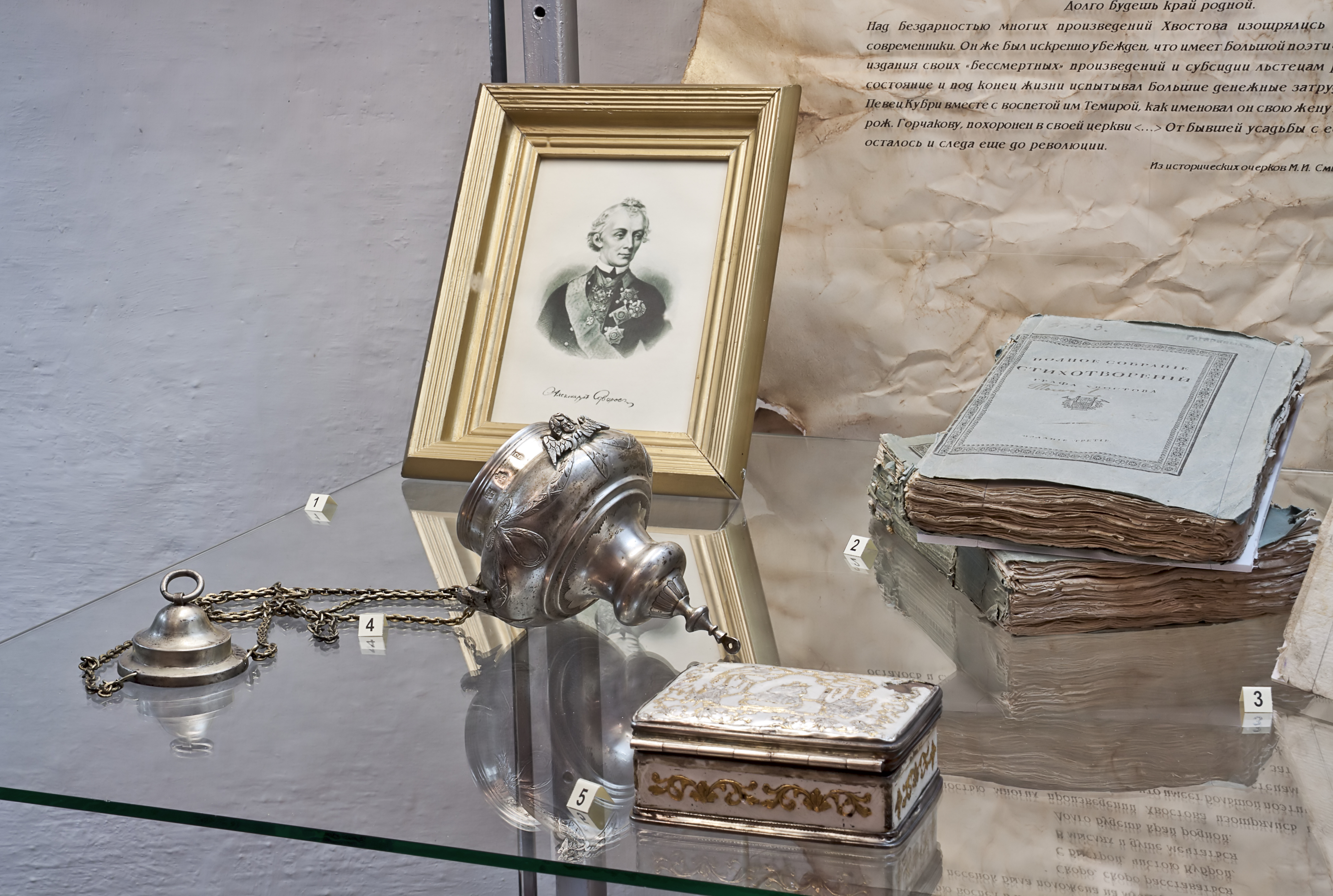 1) A copy of the portrait of Alexander Suvorov. 2) «Lyrical Poems» by D. I. Khvostov (1828). «Complete Poems» by D. I. Khvostov (1830). 4) Sanctuary lamp. 5) Snuff-box. Showcase in the exhibition «On Zalesie Roads». Pereslavl-Zalessky museum-preserve.